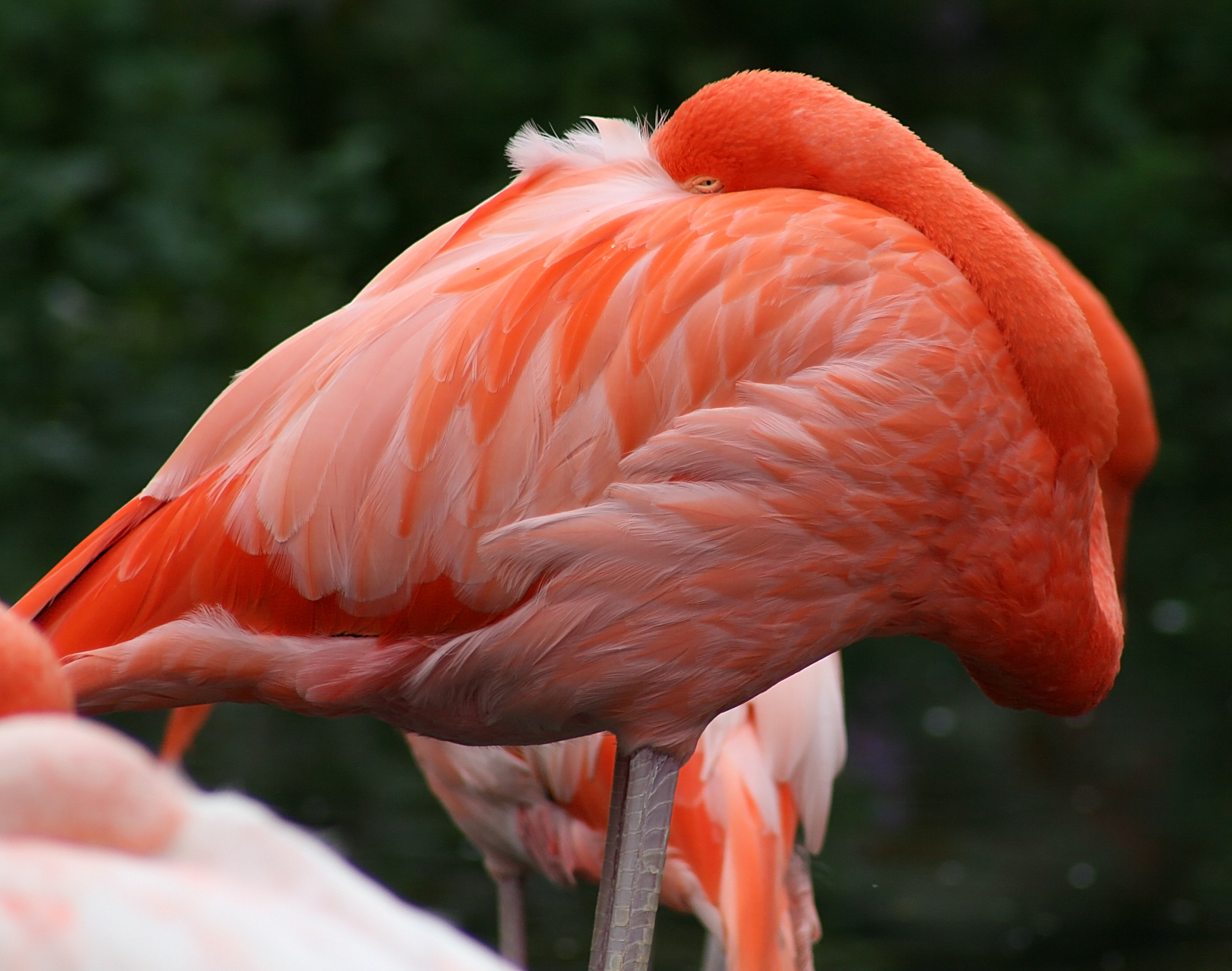 Sleeping Caribbean Flamingo at the Metro Toronto Zoo